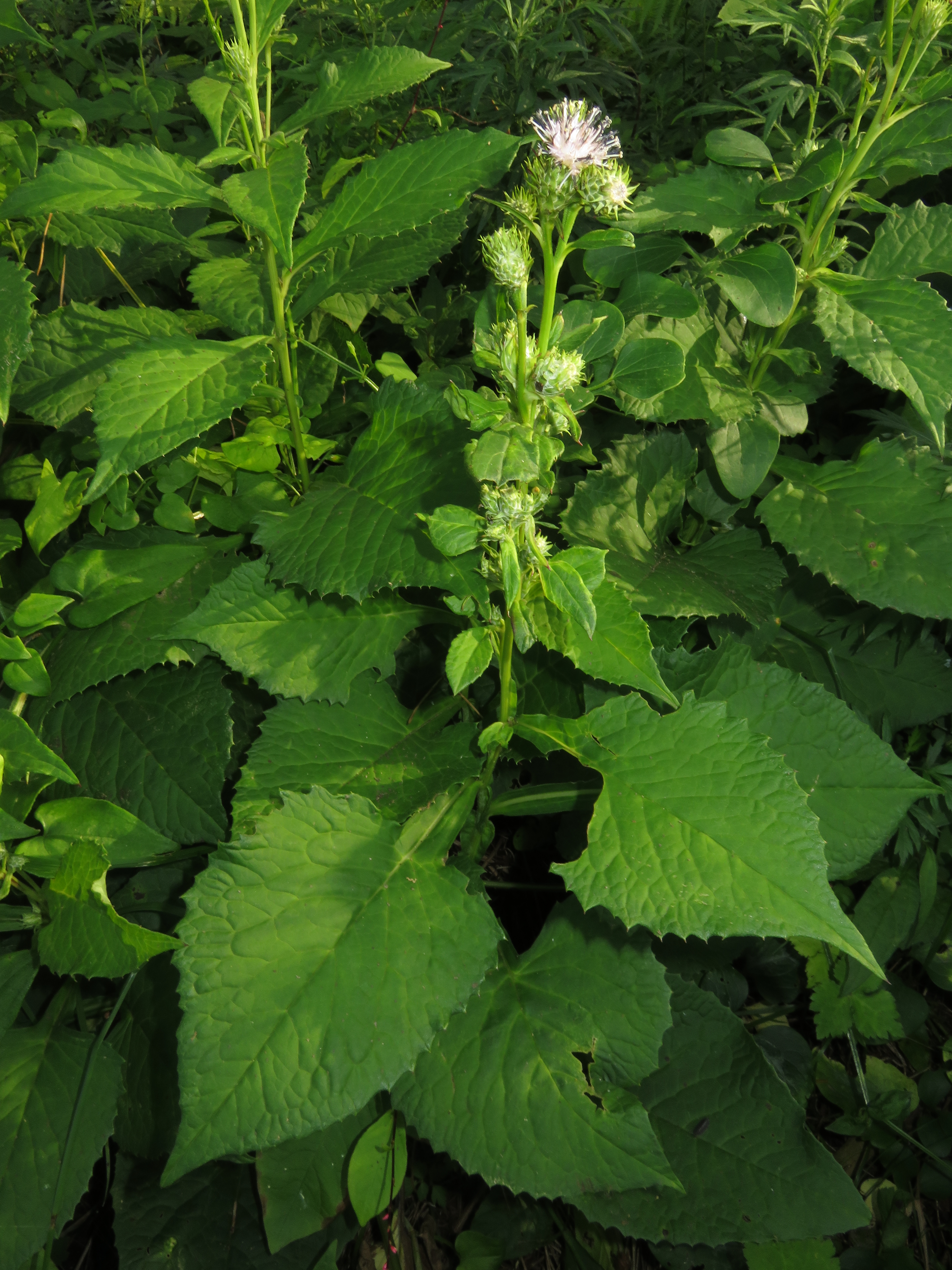 Saussurea neichiana, Tanesashi Coast, Aomori pref., Japan